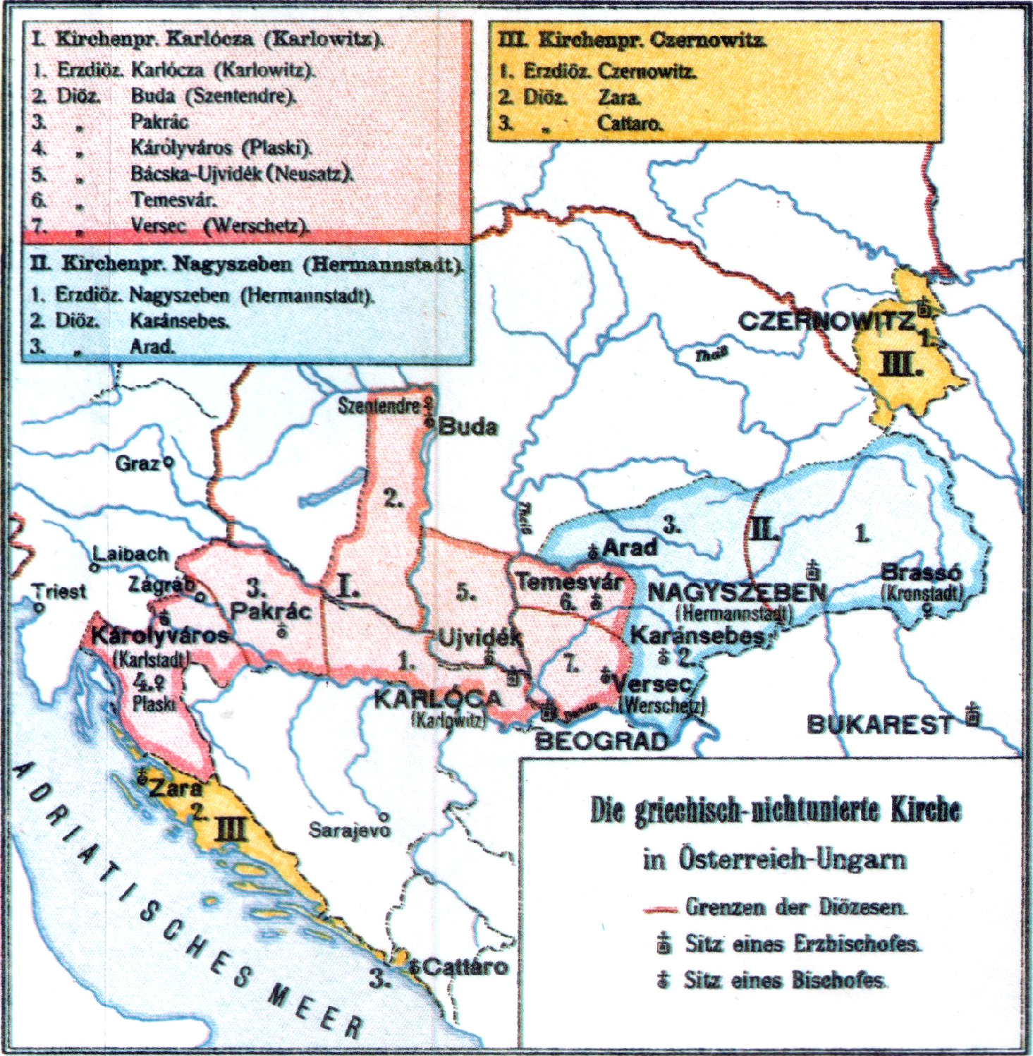 Map showing the organization of Orthodox churches in Austria-Hungary in 1909. Presented churches are Serbian patriarchate/metropolitanate of Karlovci, Romanian metropolitanate of Sibiu and Metropolitanate of Chernivtsi for Bukovina and Dalmatia.